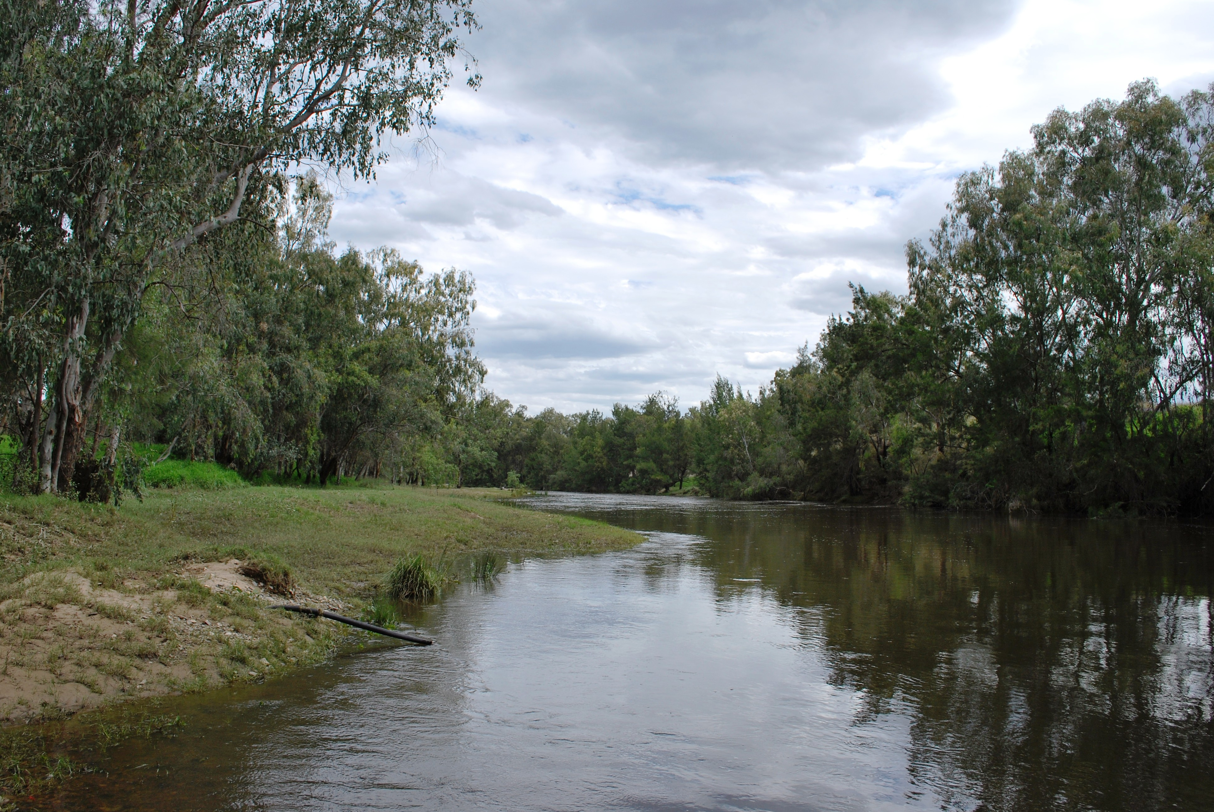 The Dumaresq River at Texas, Queensland, where it forms the border between New South Wales and Queensland.